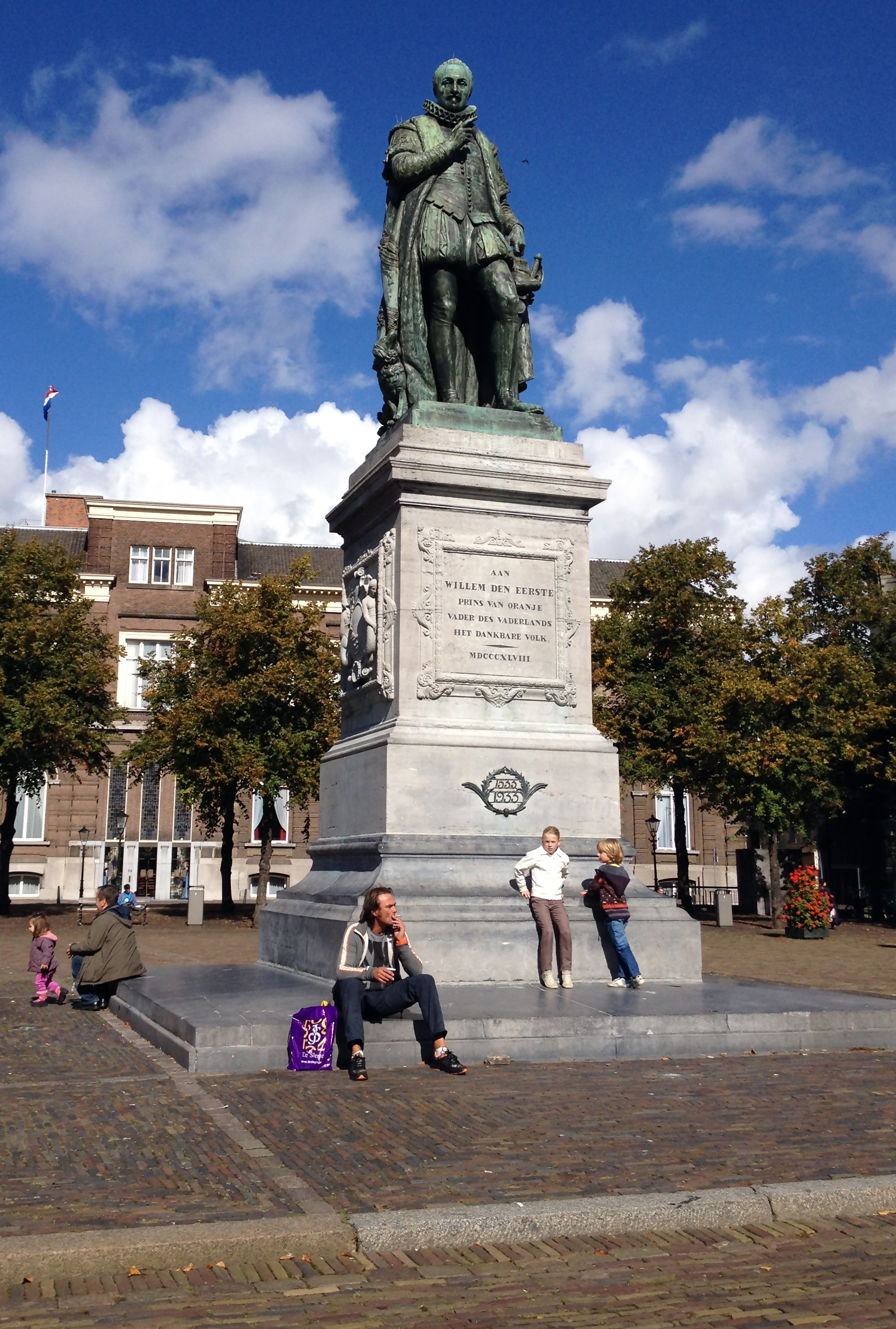 Statue of William of Orange/William the Silent in the center of The Hague, The Netherlands. Made with Iphon 4S.